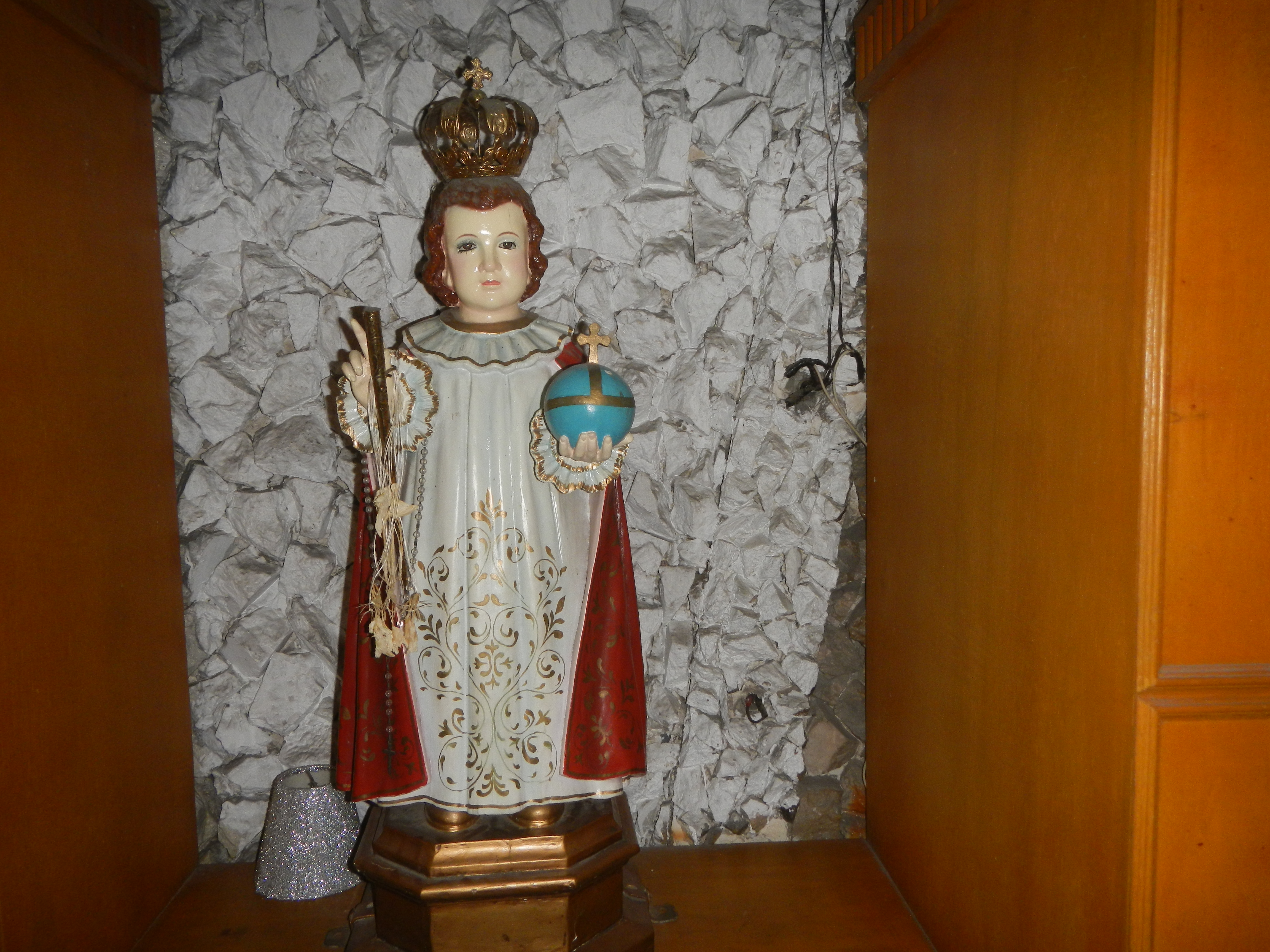 Chapel of the Holy Child Jesus (Santo Niño, San Simon, Pampanga) Roman Catholic Archdiocese of San Fernando Barangay Santo Niño 14°59'8"N 120°45'45"E San Simon, Pampanga (Note: Judge Florentino Floro, the owner, to repeat, Donor Florentino Floro of all these photos hereby donate gratuitously, freely and unconditionally all these photos to and for Wikimedia Commons, exclusively, for public use of the public domain, and again without any condition whatsoever).